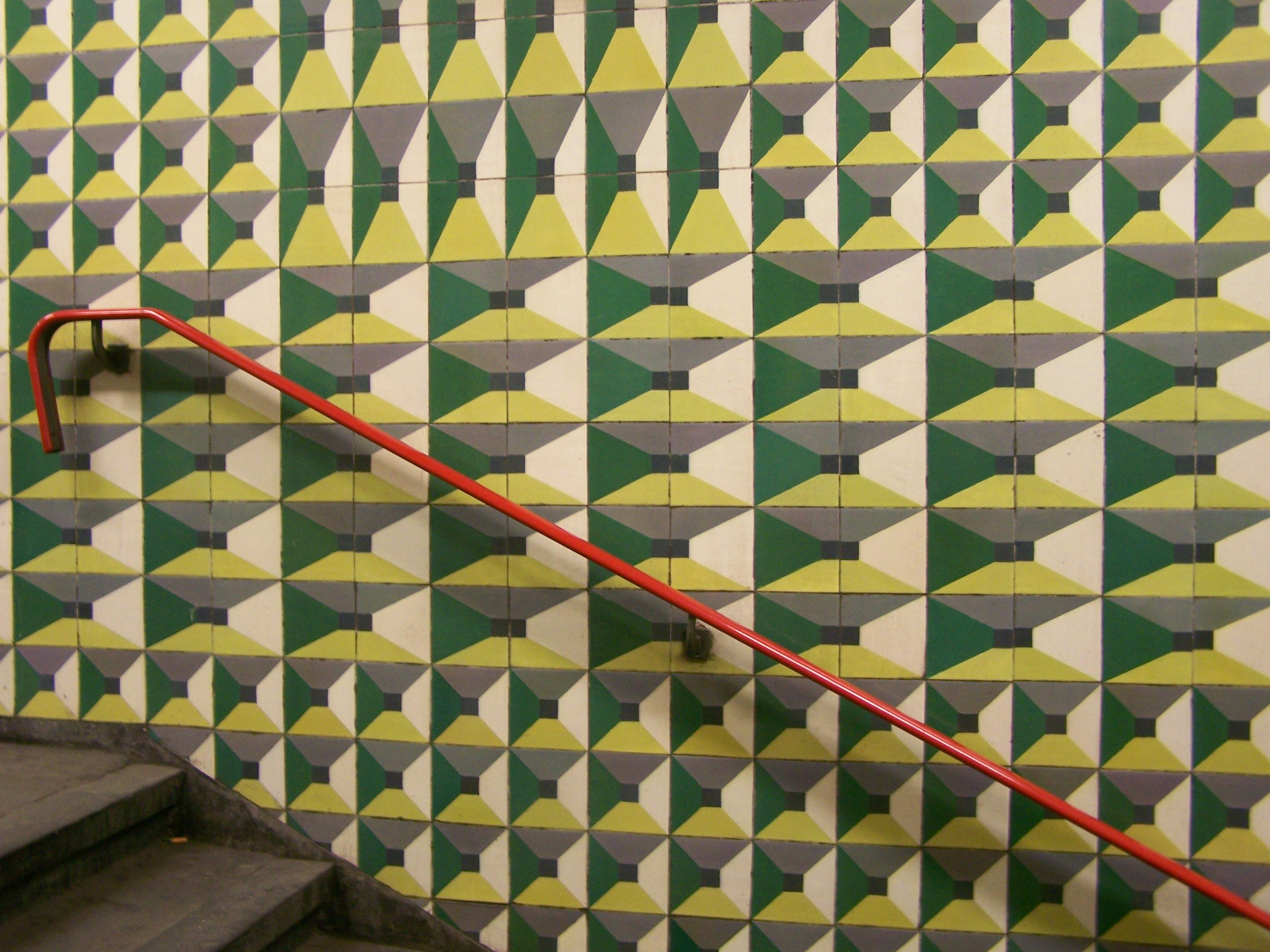 Azulejos at Lisbon's underground station Praça de Espanha, Lisbon, Portugal